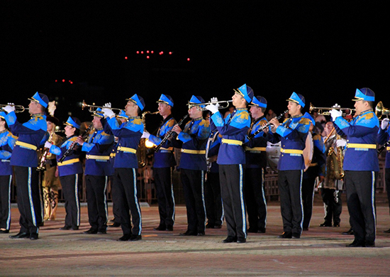 В рамках VII Международного военно-музыкального фестиваля «Амурские волны-2018» состоялось масштабное выступление военных музыкантов ВВО